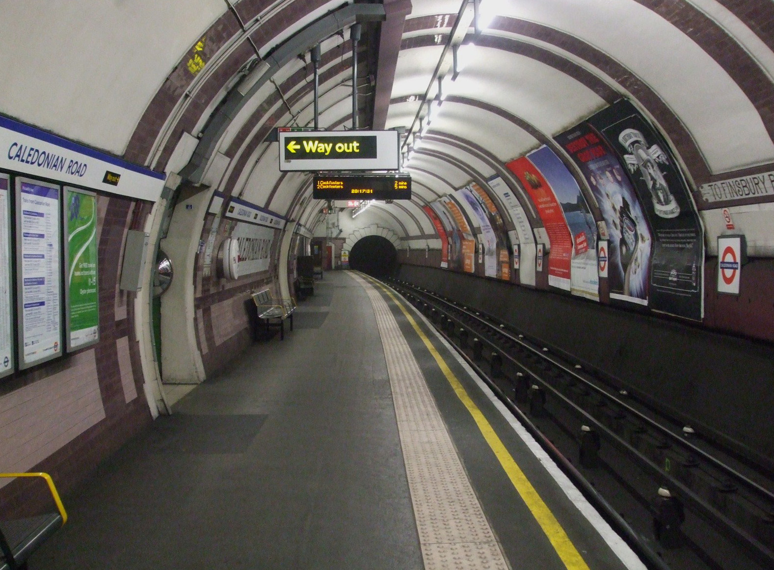 Caledonian Road tube station eastbound platform (actually northbound here) looking south